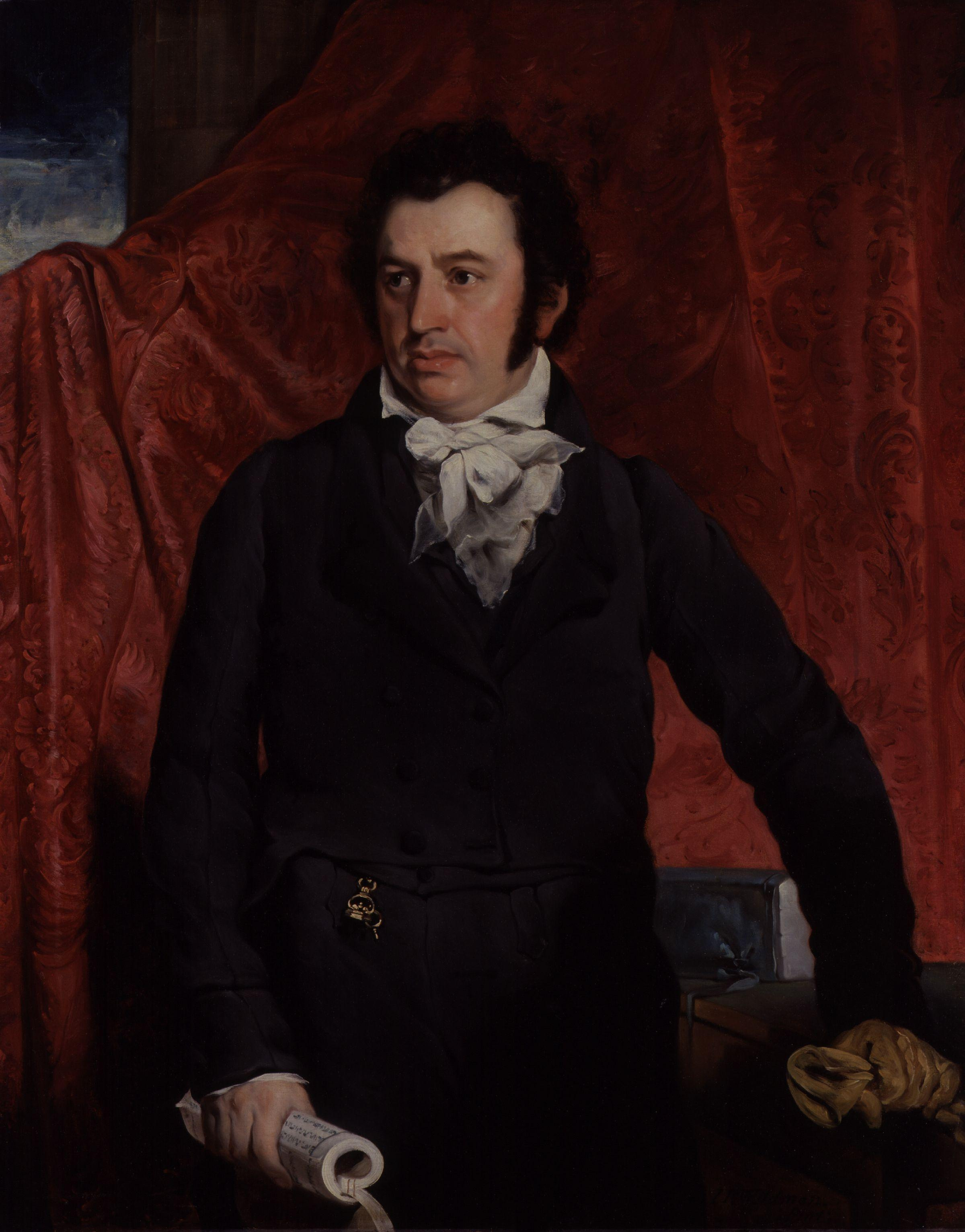 Robert Morrison, by John Richard Wildman. All images in this batch have a known author, but have manually examined for strong evidence that the author was dead before 1939, such as approximate death dates, birth dates, floruit dates, and publication dates.